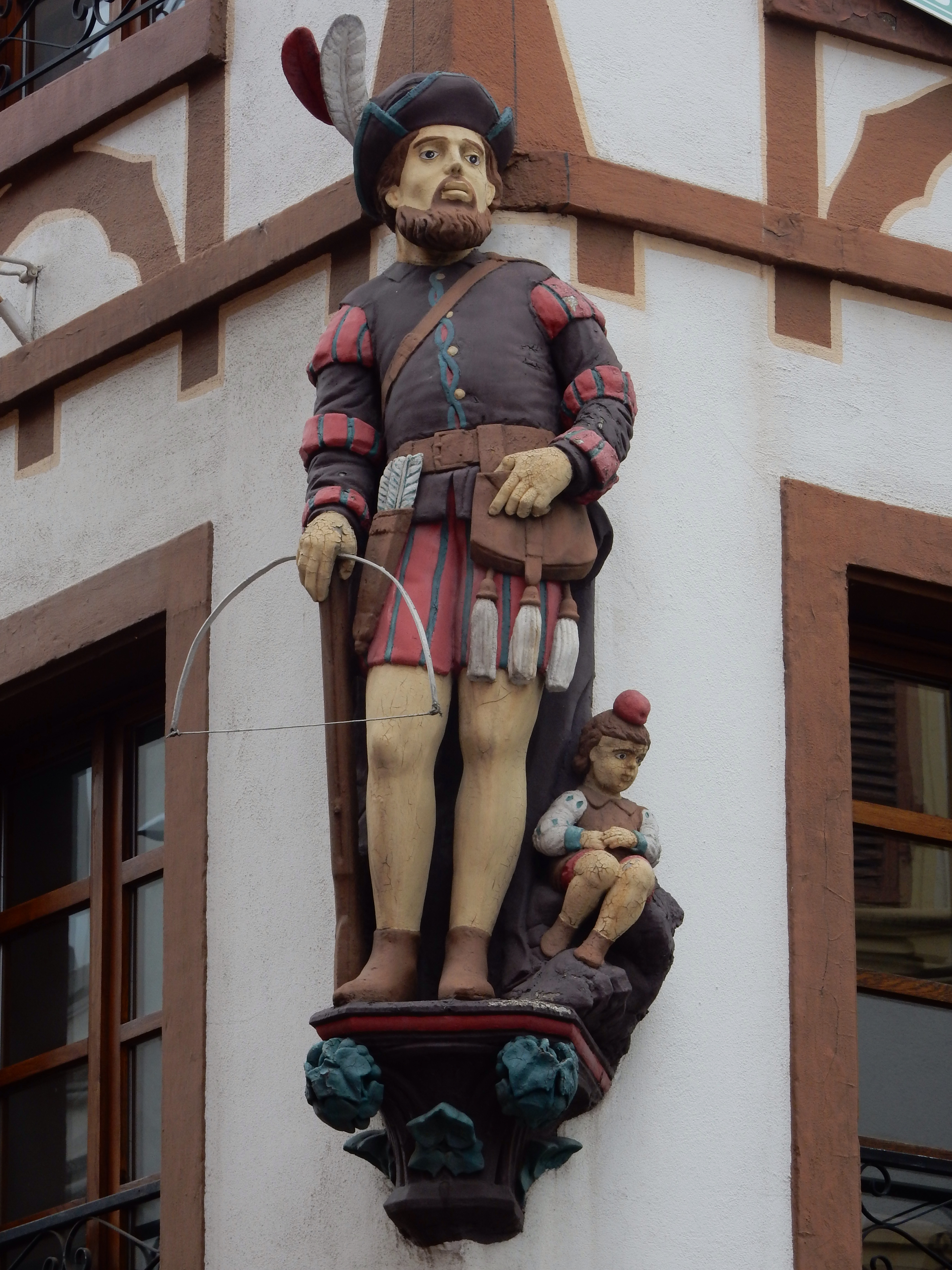 Mulhouse, statue of William Tell holding a crossbow (former versions stated it would be a normal bow, but the shaft of the crossbow is to be seen). Notice the small size of the children's head compared to Tell's.